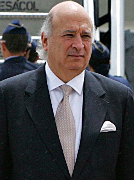 Sabas Pretelt de la Vega, politician and businessman from Colombia (croped version)